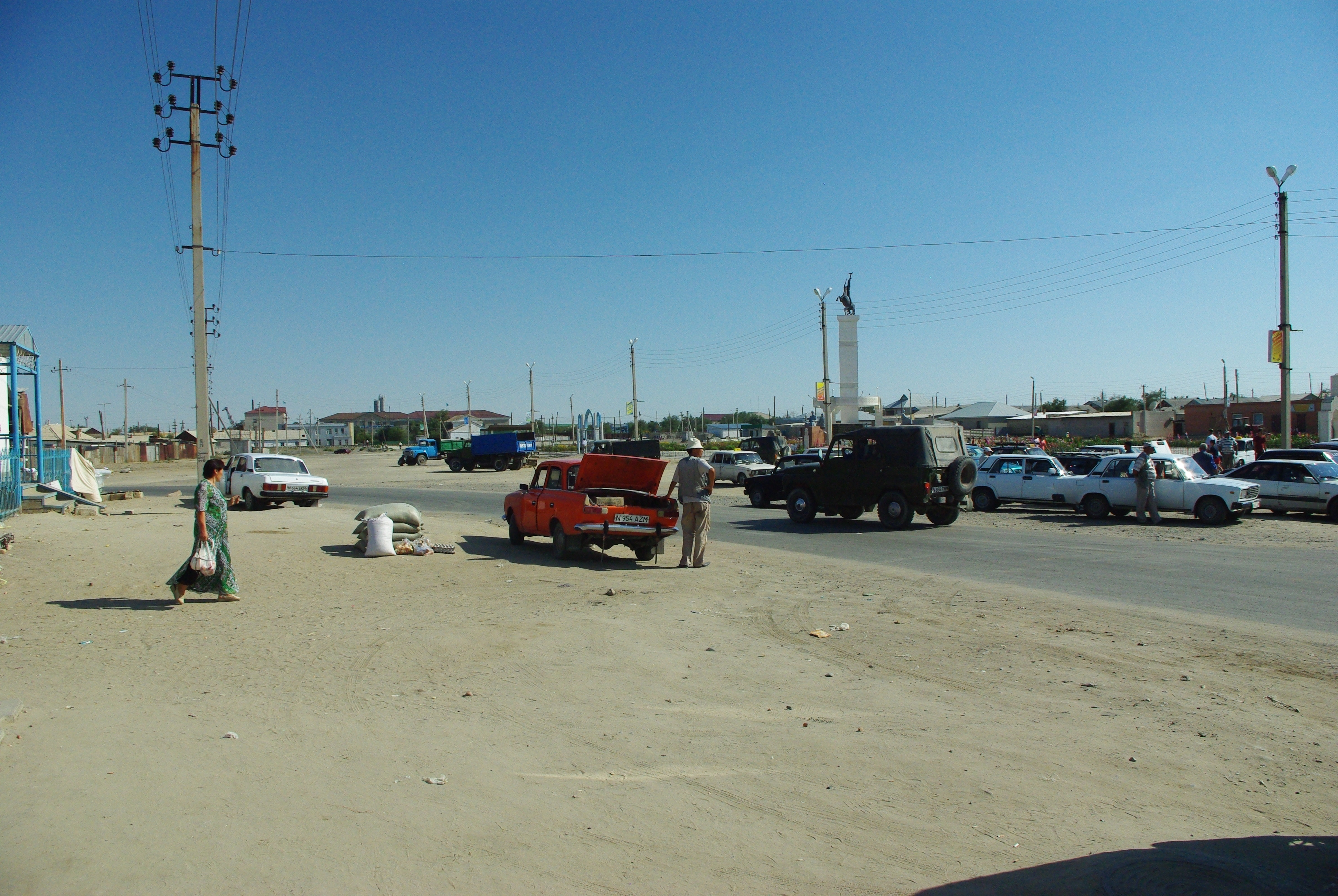 Public square in Aral, Kazakhstan